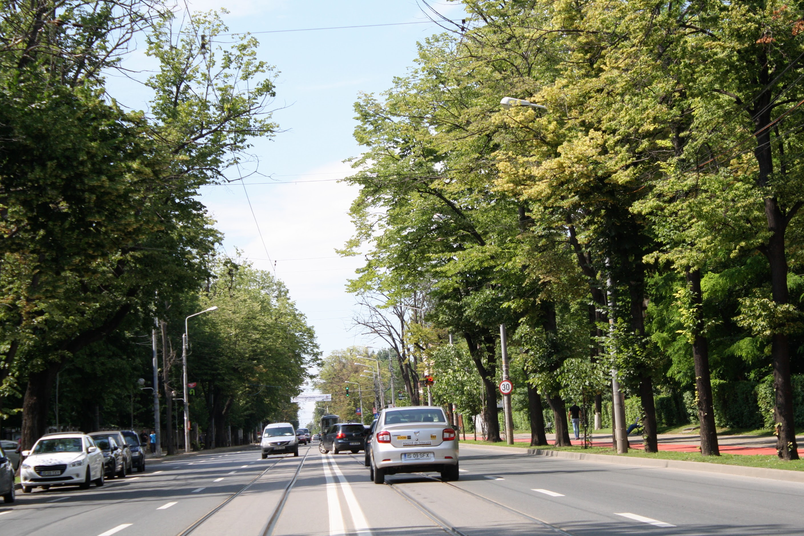 Aliniament de Tilia pe bulevardul Carol I, Iaşi